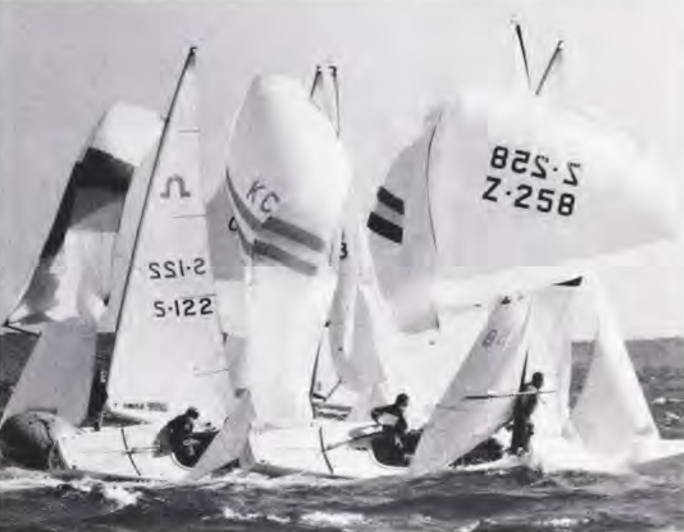 Gybe mark in race 1 of the 1982 Soling Worlds Freemantle